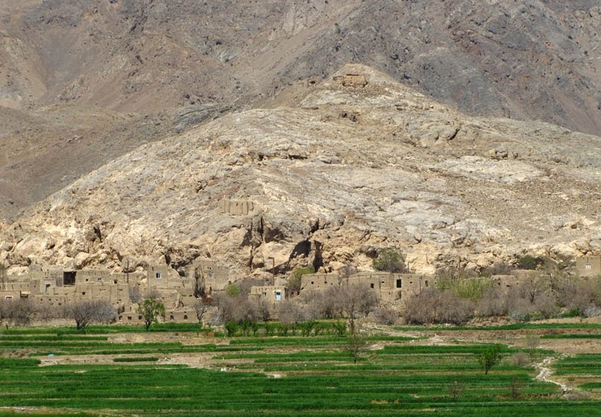 Rashm, Semnan Province, IranSrpskohrvatski / српскохрватски: Rašm, Semnanska pokrajina, Iran